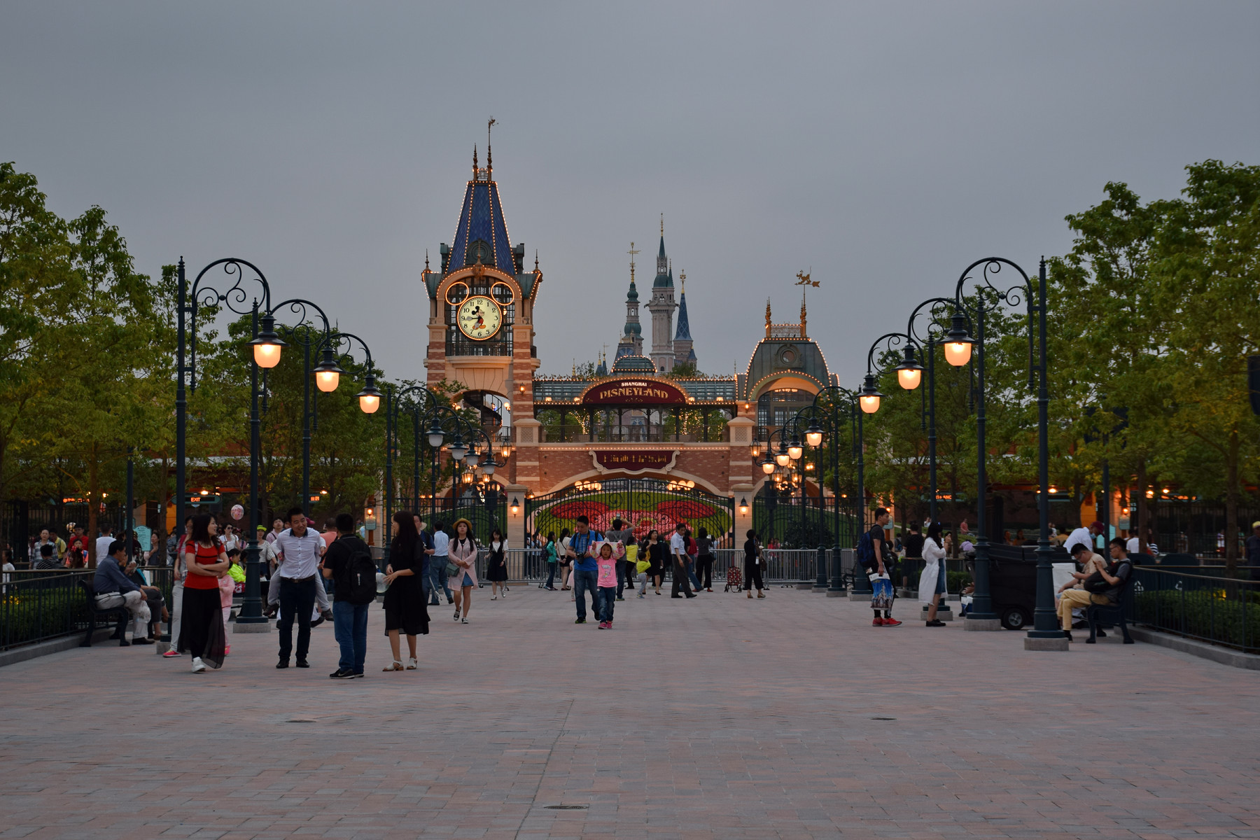 Main Entry, Shanghai Disneyland Park